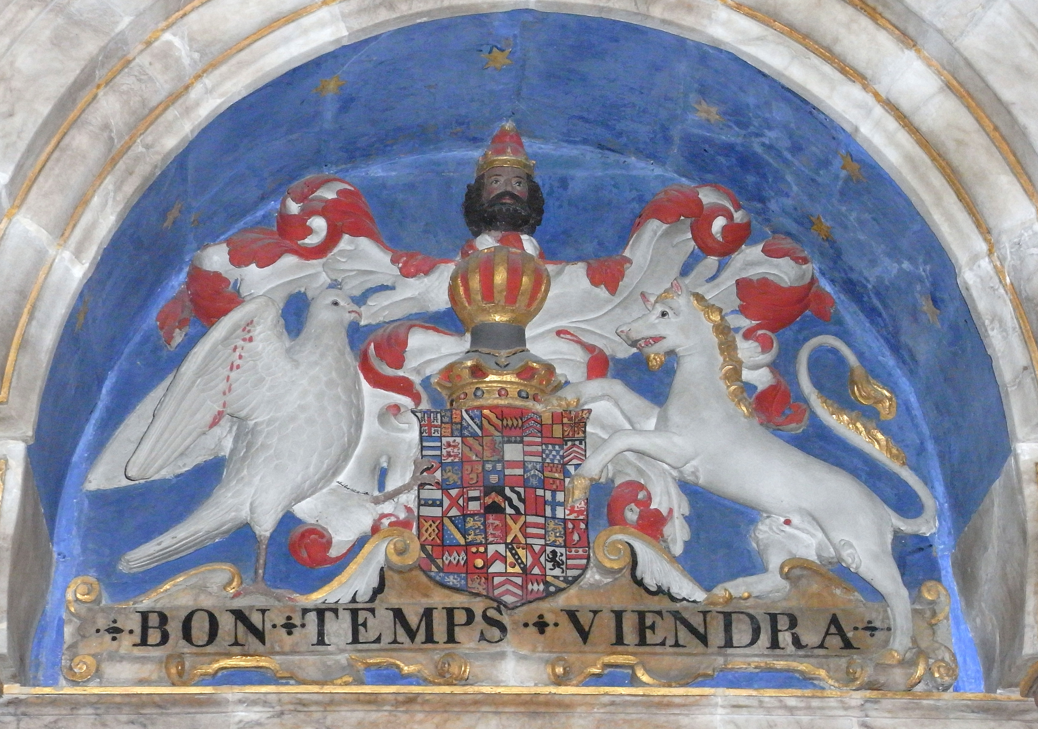 heraldic achievement of William Bourchier, 3rd Earl of Bath (1557-1623), detail from his monument in Tawstock Church, Devon. The escutcheon shows 53 quarterings with supporters, dexter: a falcon argent beaked and membered or the wings elevated vulned gules; sinister: an heraldic tiger argent.[1] Above is the crest of Bourchier: A man's head in profile proper ducally crowned or with a pointed cap gules; below the motto of Bourchier: Bon Temps Viendra ("the right time will come"). Quarters: 1: Bourchier 2: Royal arms 3: Bohun 4: Brewer 11: Brewer 19: Grenville 23: Louvain 28: Hankford 29: Stapledon 40: Cogan